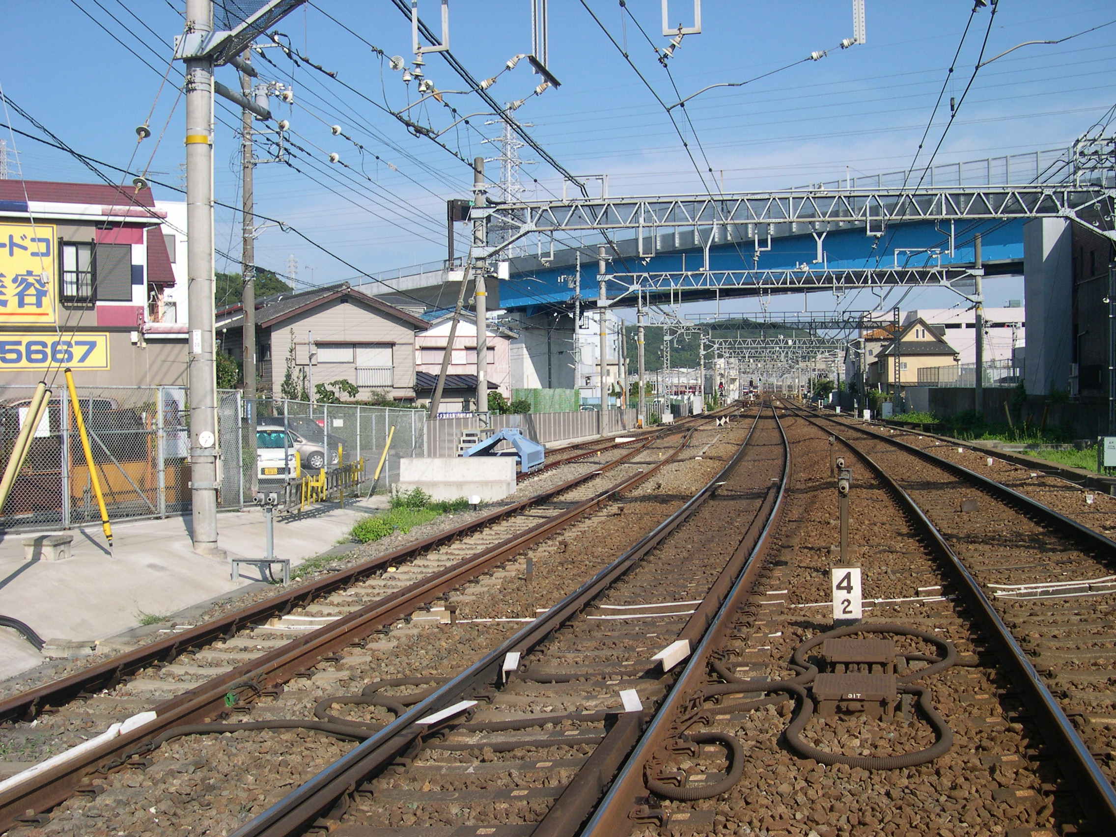 The signal station of Kurihama Depot